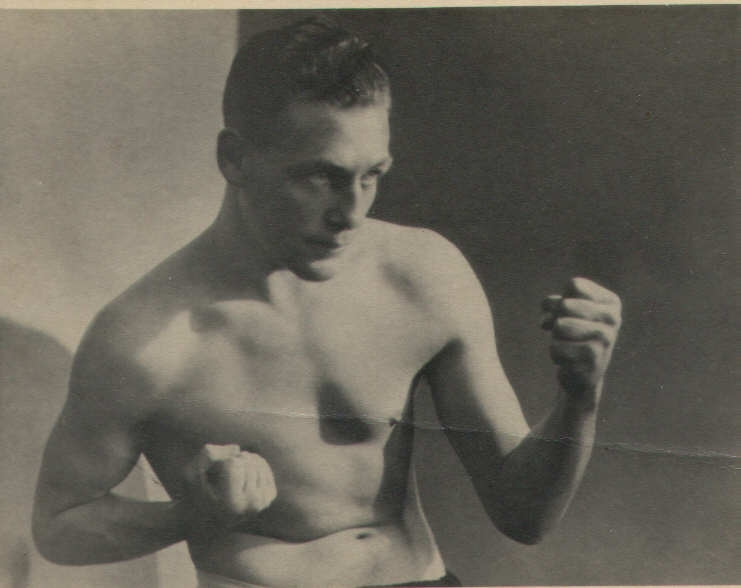 William Alexander Smith (1905-1955) was a South African bantamweight professional boxer. According to the submitter, "In South Africa, my father used this photo as his 'autograph picture' to be handed out broadly to fans. The photo would have been taken in the late 1920s and there is no marking of photographer or copyright on the back of this sole remaining copy. It was broadly circulated, printed in newspapers and magazines for many years."